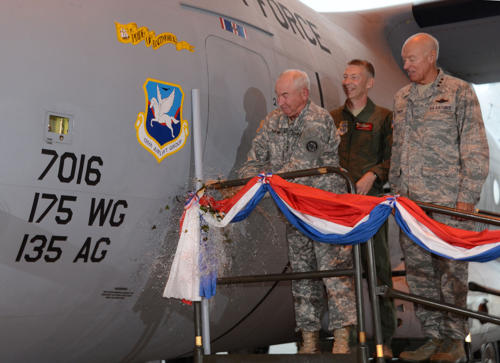 Maj. Gen. James A. Adkins, Adjutant General, christens the new C-27J Spartan during an arrival ceremony August 13, 2011, at Warfield Air National Guard Base, Baltimore, MD while Col. Thomas E. Hans, commander 135th Airlift Group and Lt. Gen. Harry M. Wyatt III, Director, Air National Guard, watch. The 135th Airlift Group transitions from the C-130J Hercules to the C-27J Spartan, which was designed to meet Air Force requirements for a rugged, medium-sized air-land transport. (U.S. Air Force photo by Staff Sgt. Benjamin Hughes/RELEASED)